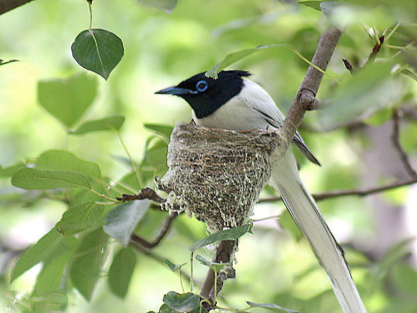 Asian Paradise Flycatcher Terpsiphone paradisi in Kullu District of Himachal Pradesh, India.